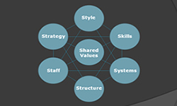 7 S Scheme from McKinsey